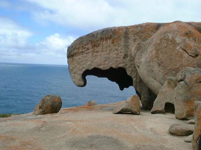 Remarkable Rocks — Flinders Chase National Park, Île Kangourou Australie